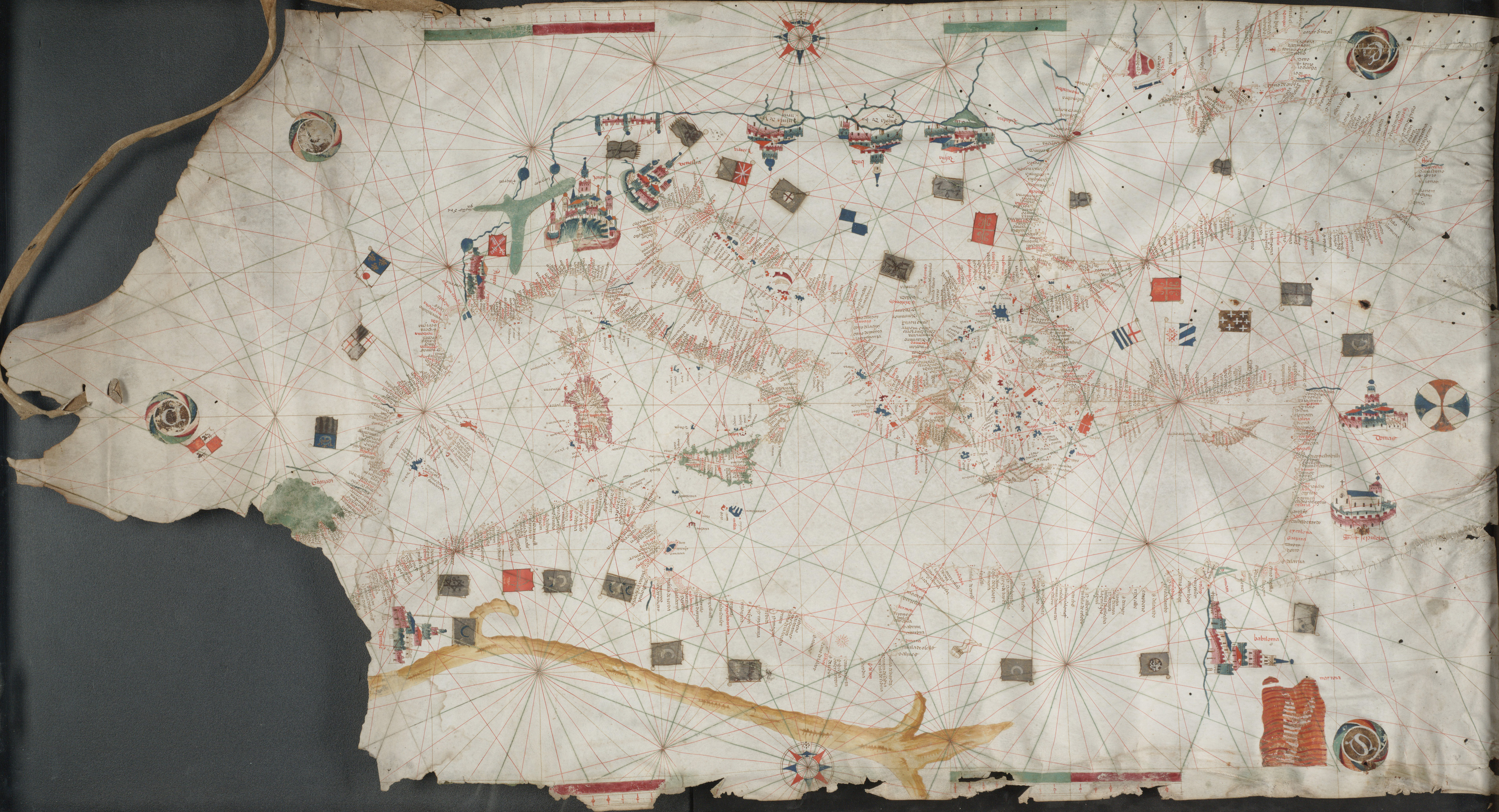 Beinecke Rare Book and Manuscript Library, Yale Universiti